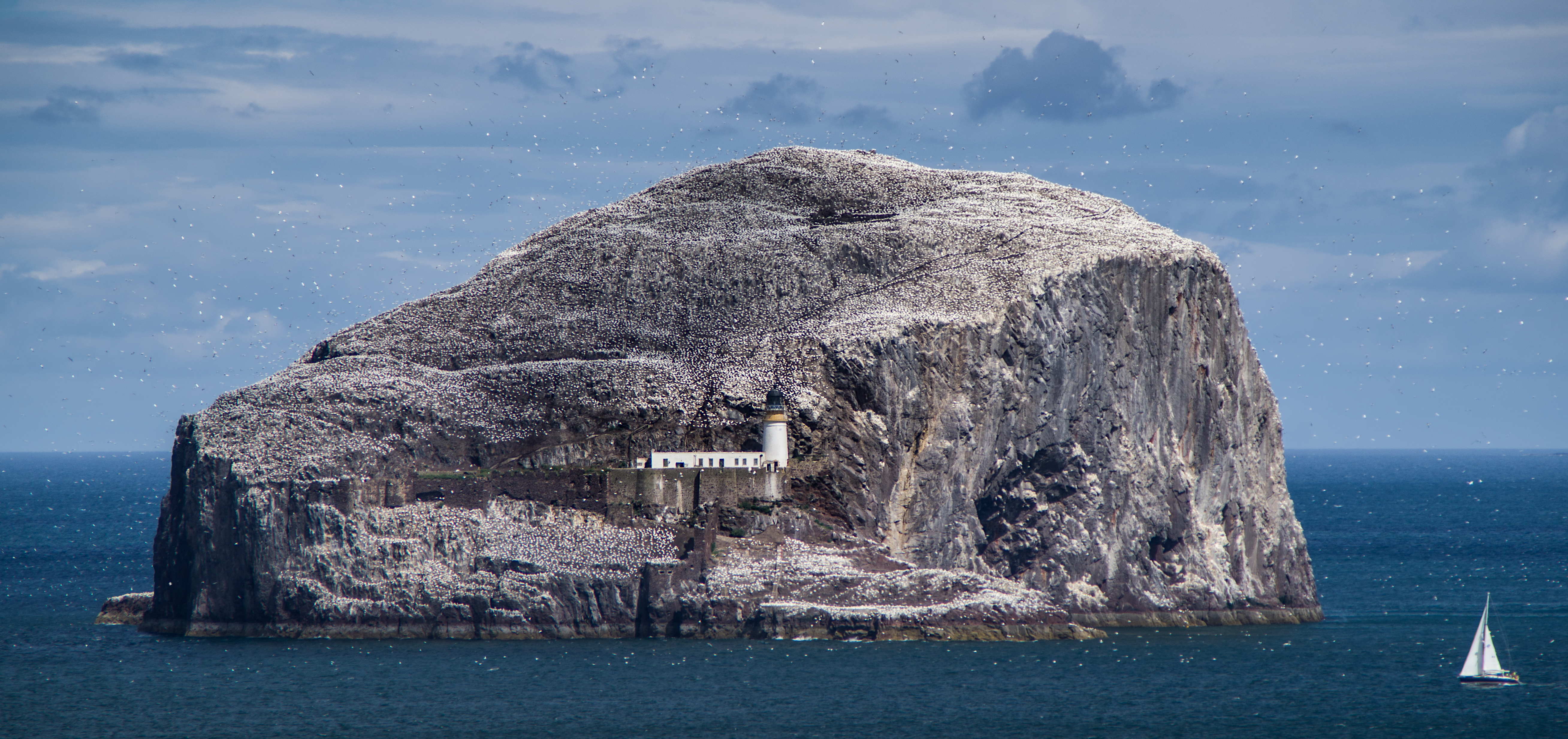 Lighthouse on the Bass Rock island, in the outer part of the Firth of Forth in the east of Scotland. Island is a steep-sided volcanic rock, 107 metres at its highest point, and is home to a large colony of gannets. The Lighthouse was constructed on the rock in 1902.